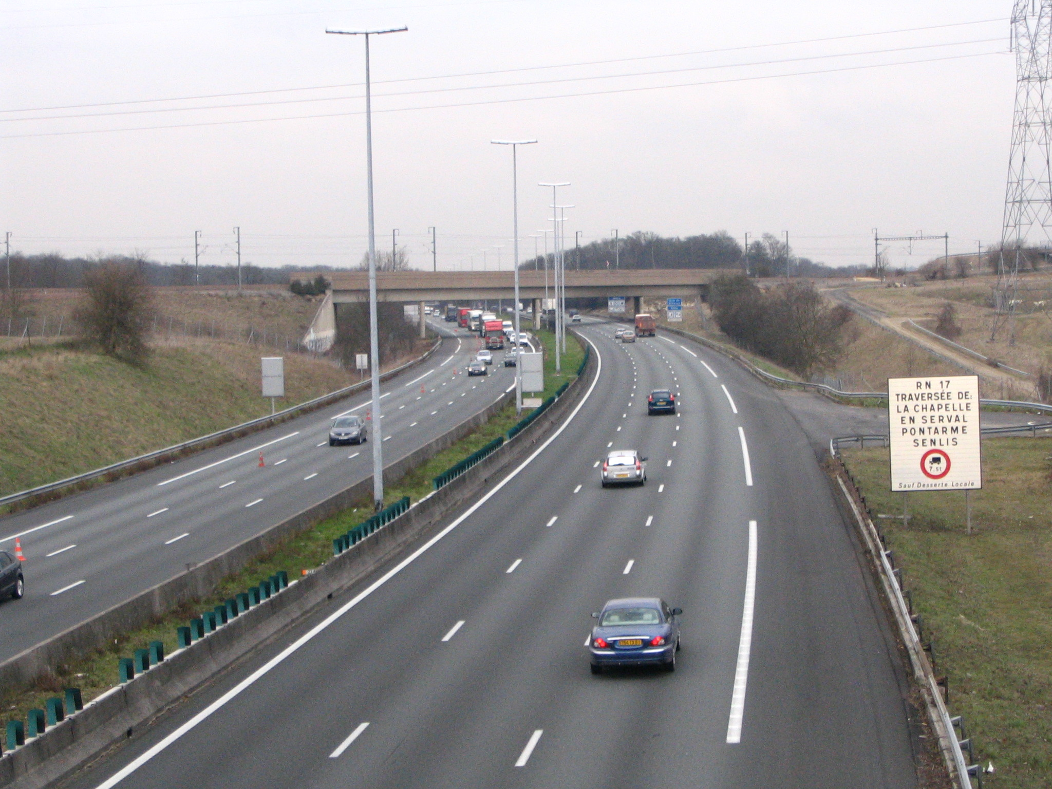 A1 autoroute near Chennevières-lès-Louvres, Val d'Oise, France.